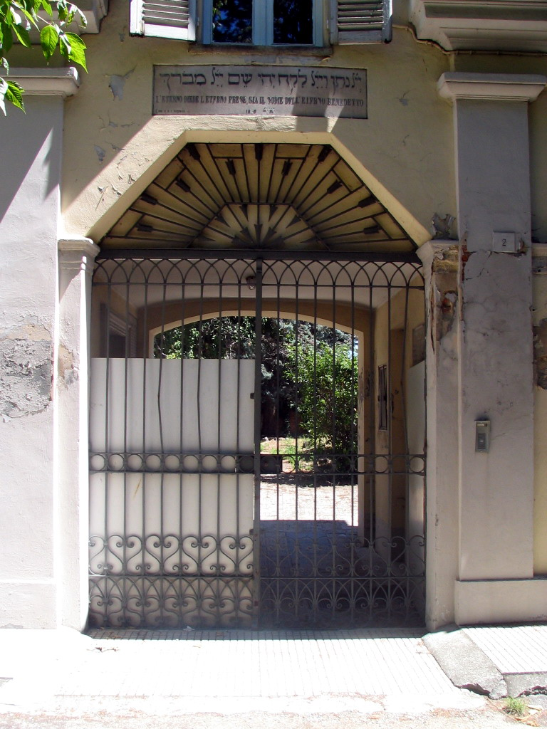 The jewish cemetery in Asti, Italy.